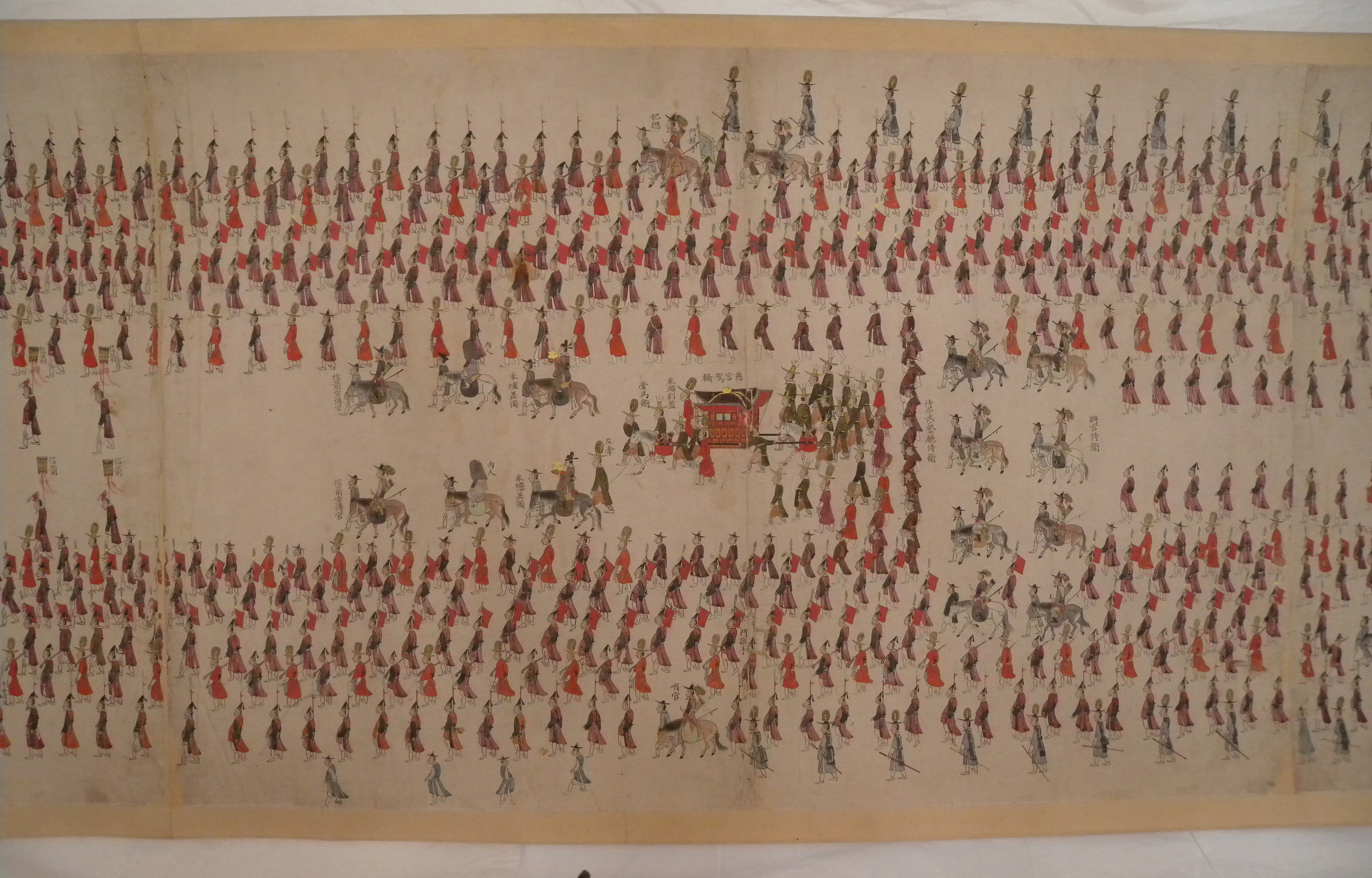 Hwaseong Neunghaeng Banchado is a historical illustration to describe the march of Jeongjo of Joseon, the 22th king of Joseon dynasty, when he went to the tomb of his father in Hwaseong Fortress at 1795.